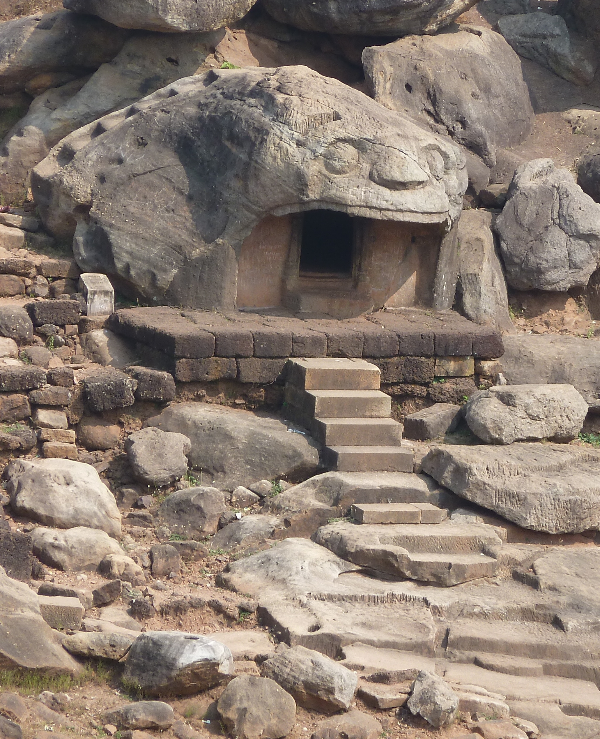 This is one of the caves in Udhayagiri fort (one of twin forts of Udhayagiri and Khandagir fort) in Bhubaneswar, India